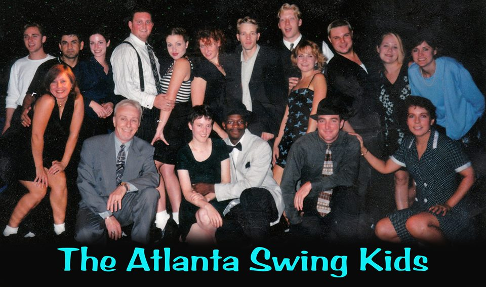 DJ Alan White posing with dancers from the Atlanta swing dance scene, circa 1998